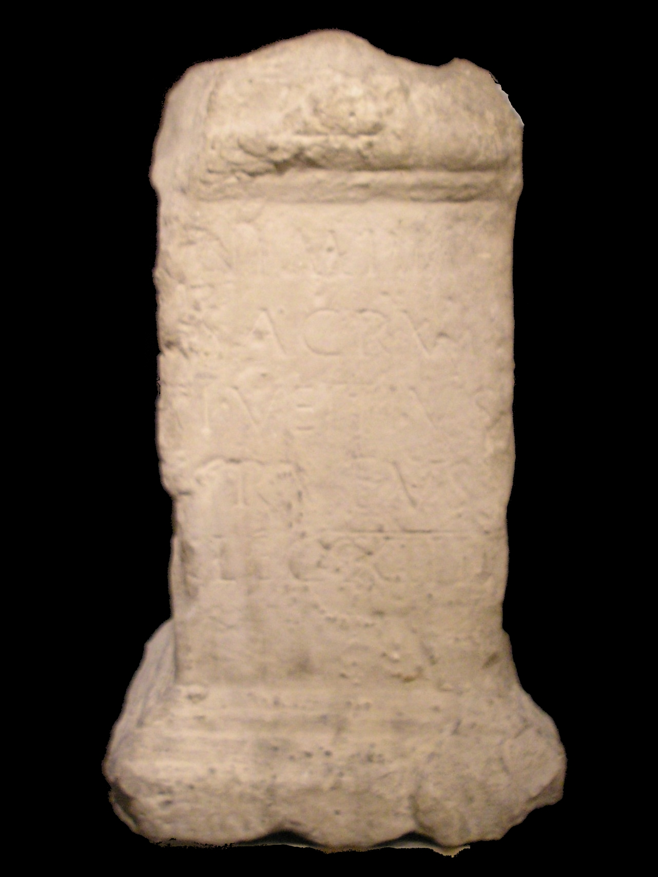 Worshipping altar to the Nymphs. Vienna 12, Schönbrunnerstraße/Grünbergstraße, 1853. Found in the river-bed of the Wienfluss, end of 1st to beginning of 2nd century, A.D. Inscription: The altar to the nymphs was dedicated by centurion T. Vettius Rufus. A sacrificial bowl and a pitcher are attached to the narrow sides of the altar.